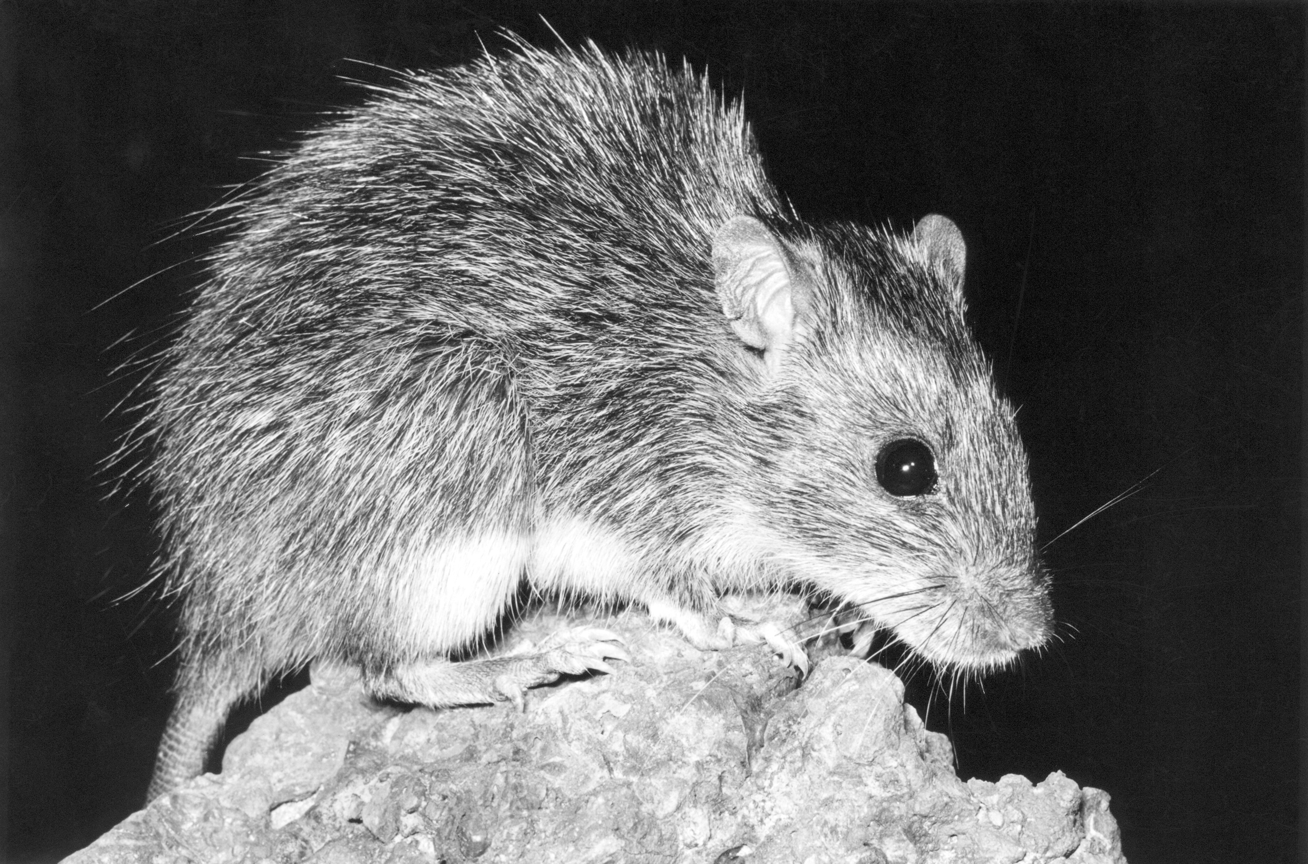 The long-haired rat – Rattus villosissimus. This species, also known as the native plague rat, can reach plague numbers in northern Australia and threaten cropping.